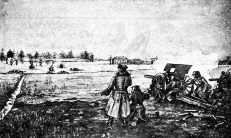 Battle of Joala on 28 November 1918. German battery firing canister shot at elements of 2nd Viljandi Communist Regiment assaulting from the Paemurru forest.